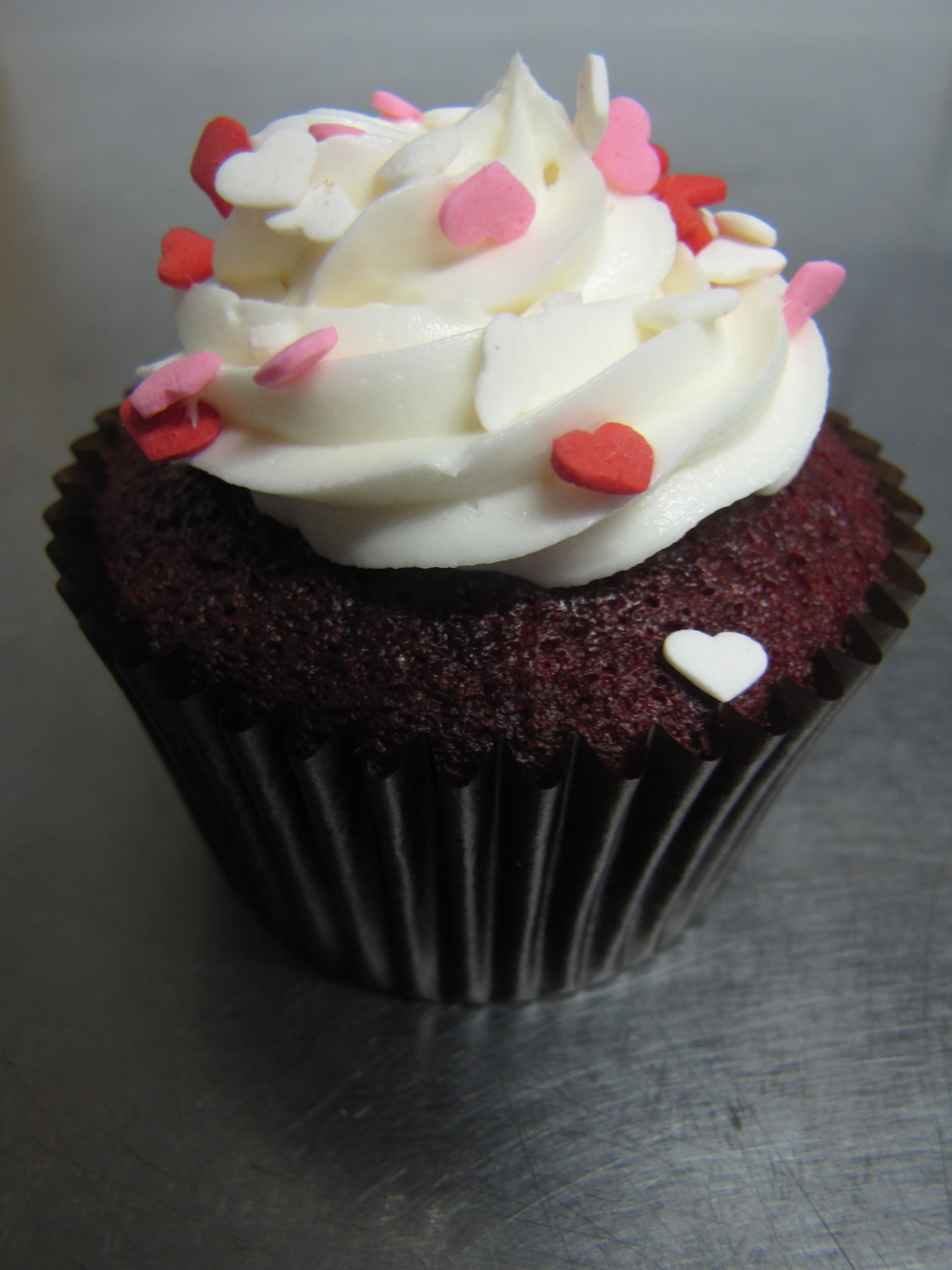 Special Valentine's Day flavour: Cran-raspberry cupcake with white chocolate buttercream and heart shaped sprinkles. One word: YUM!